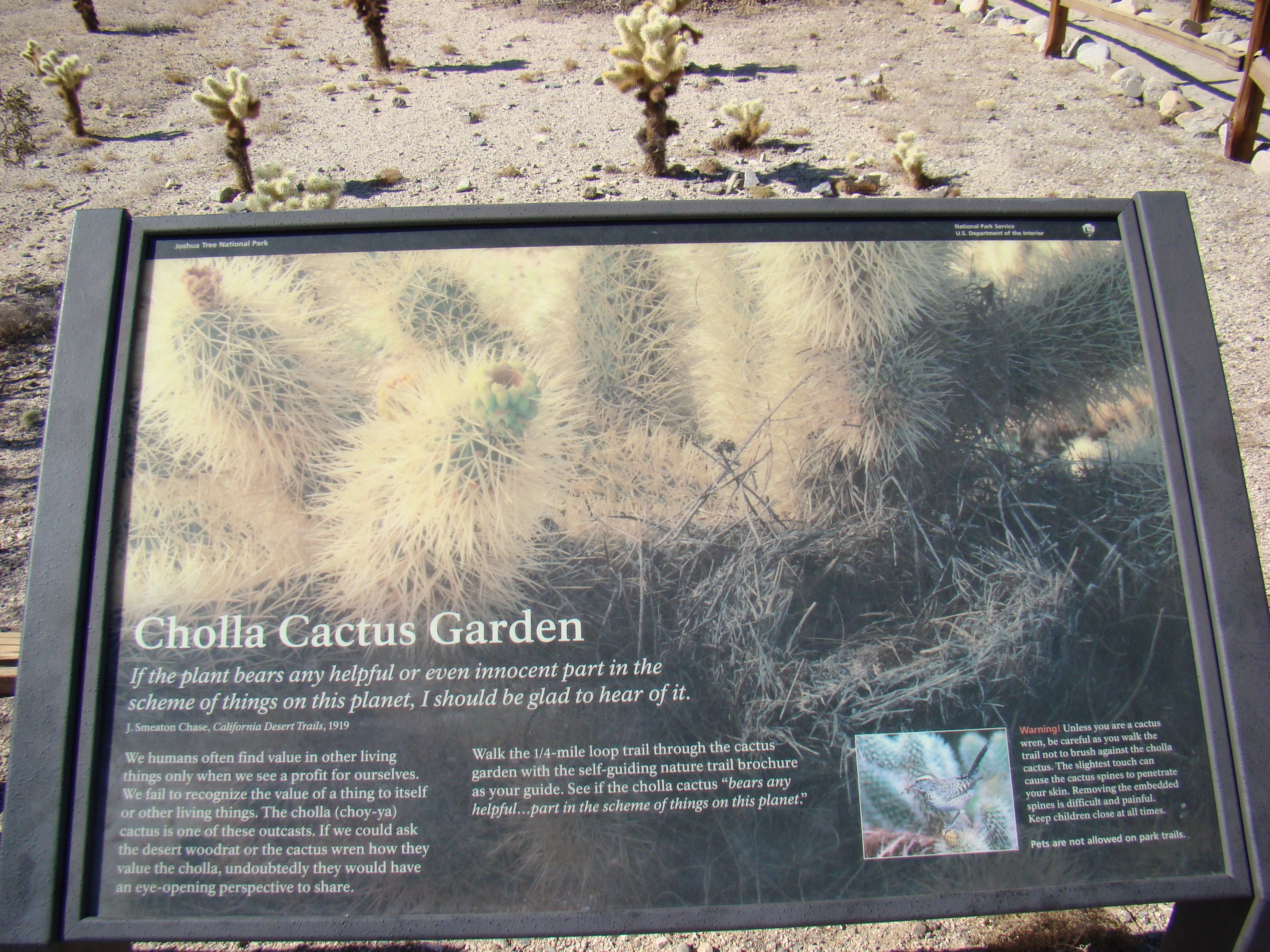 Information display for Cholla Cactus Garden Nature Trail at Joshua Tree National Park in south-eastern California in the United States.